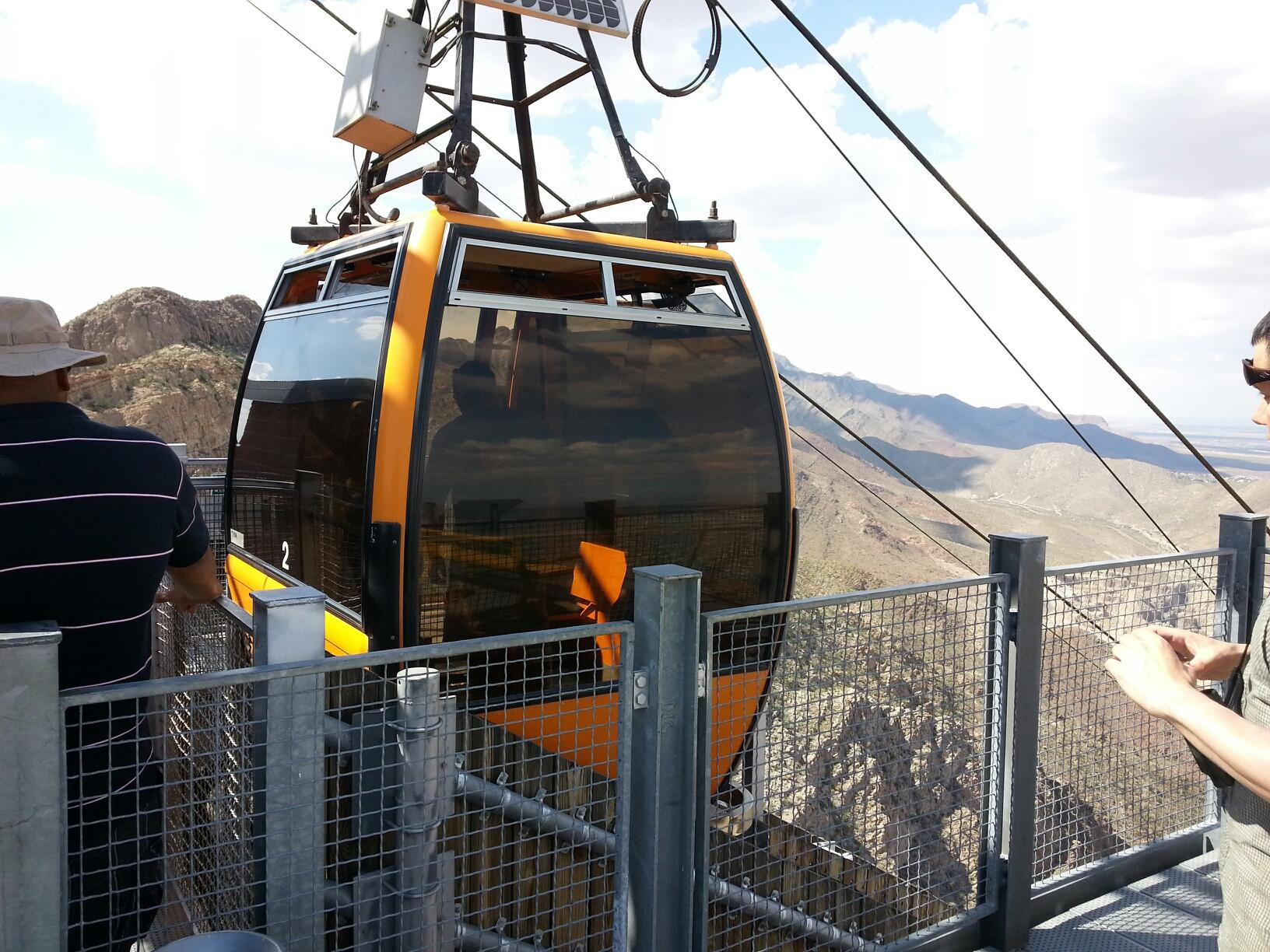 Wyler Aerial Tramway2